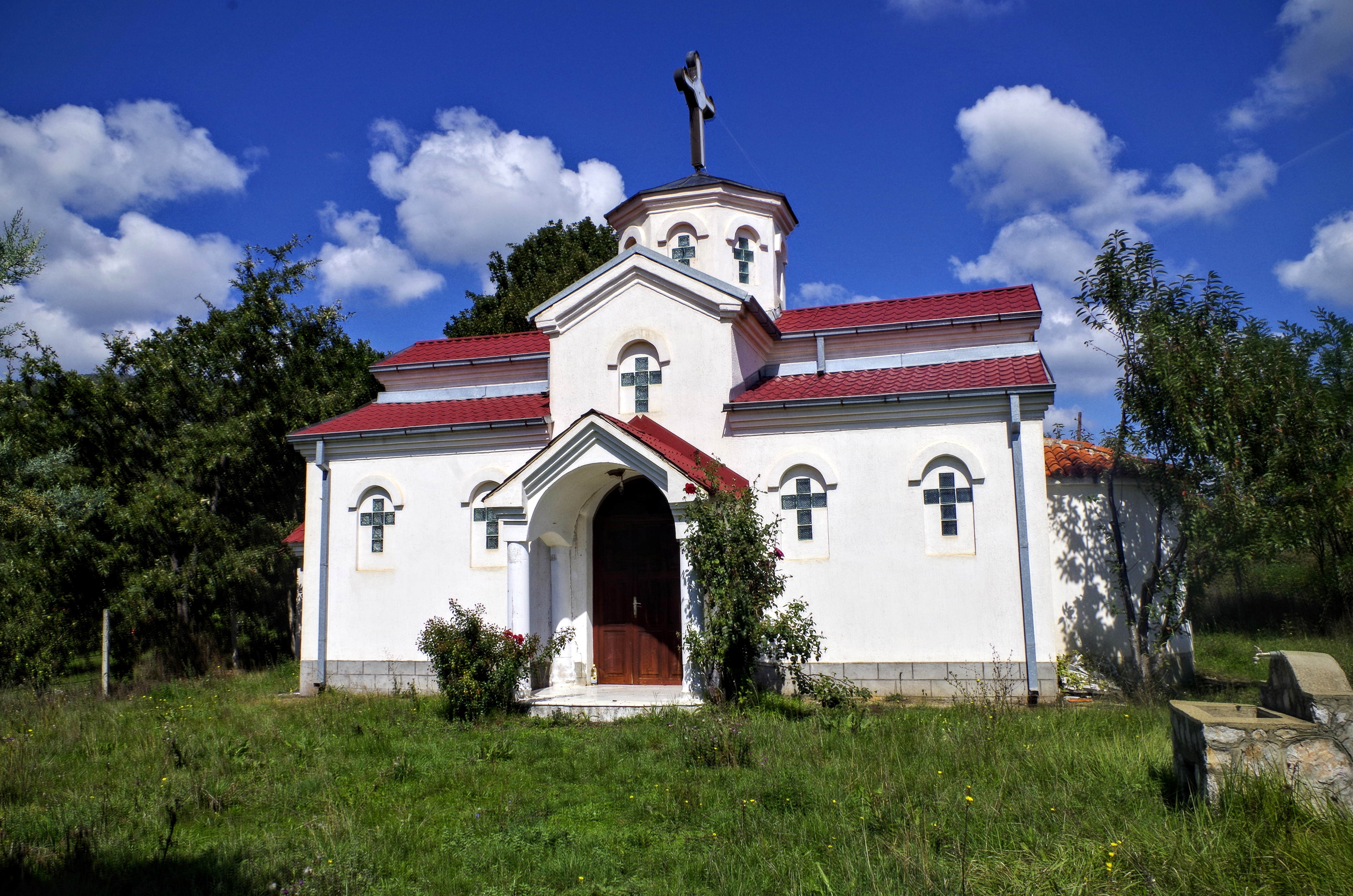 View of the St. Athanasius Church in the village Volkoderi